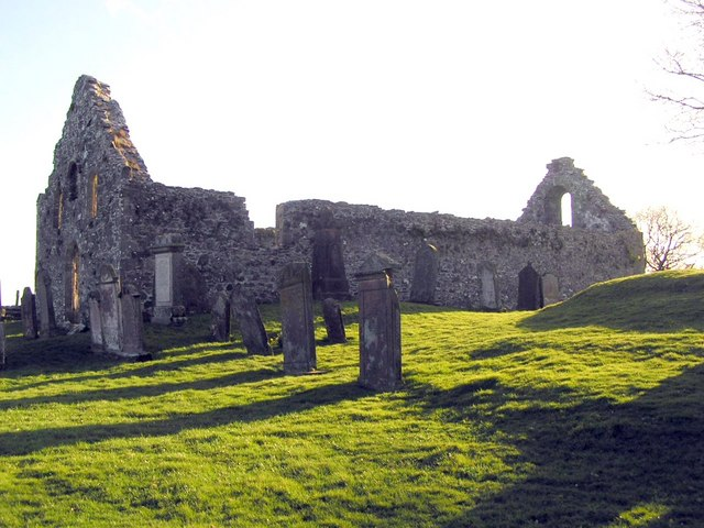 Girthon Church, Galloway Ruins of Girthon Church